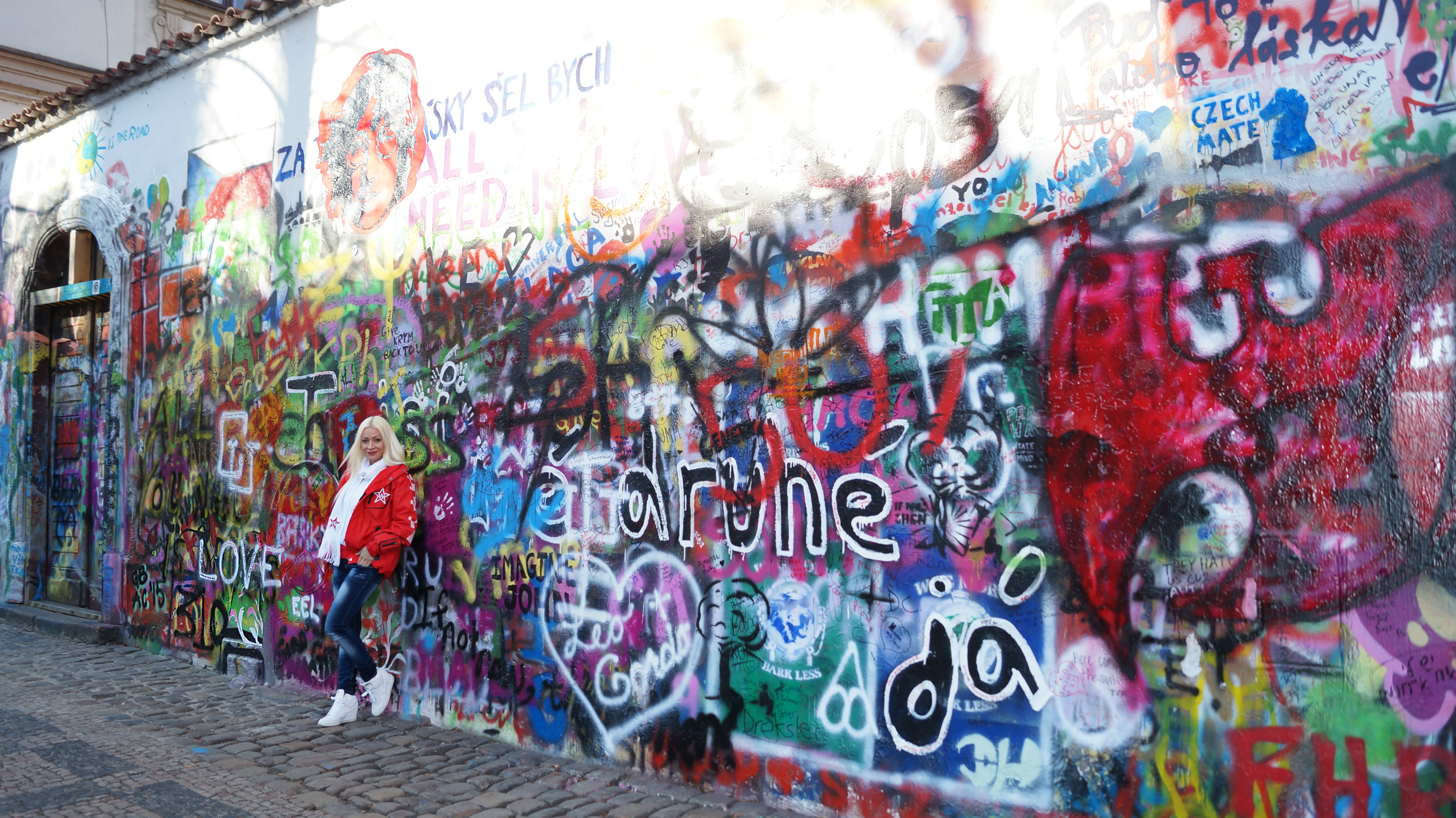 Photo by: World Wide Wilson